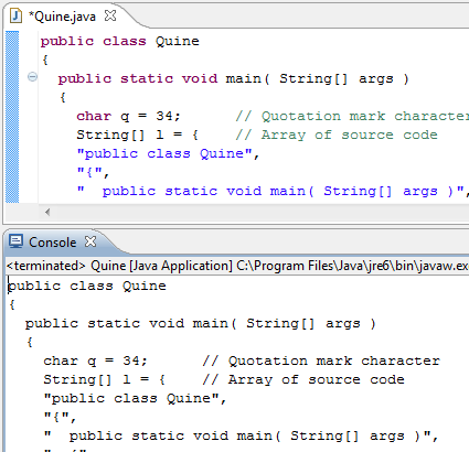 A screenshot showing a section of source code and console output for a Java quine program.